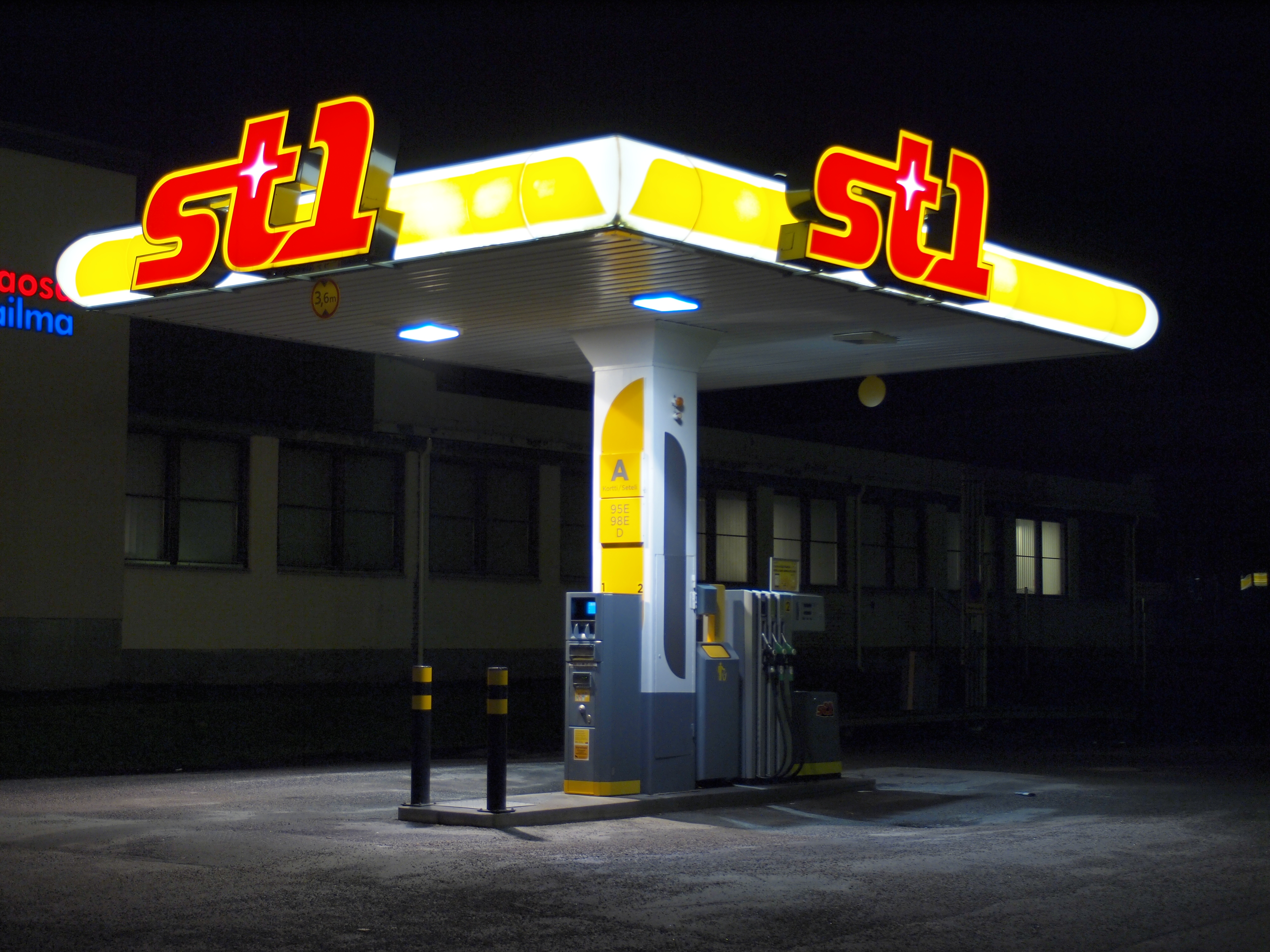 Petrol station St1 in Jyväskylä.